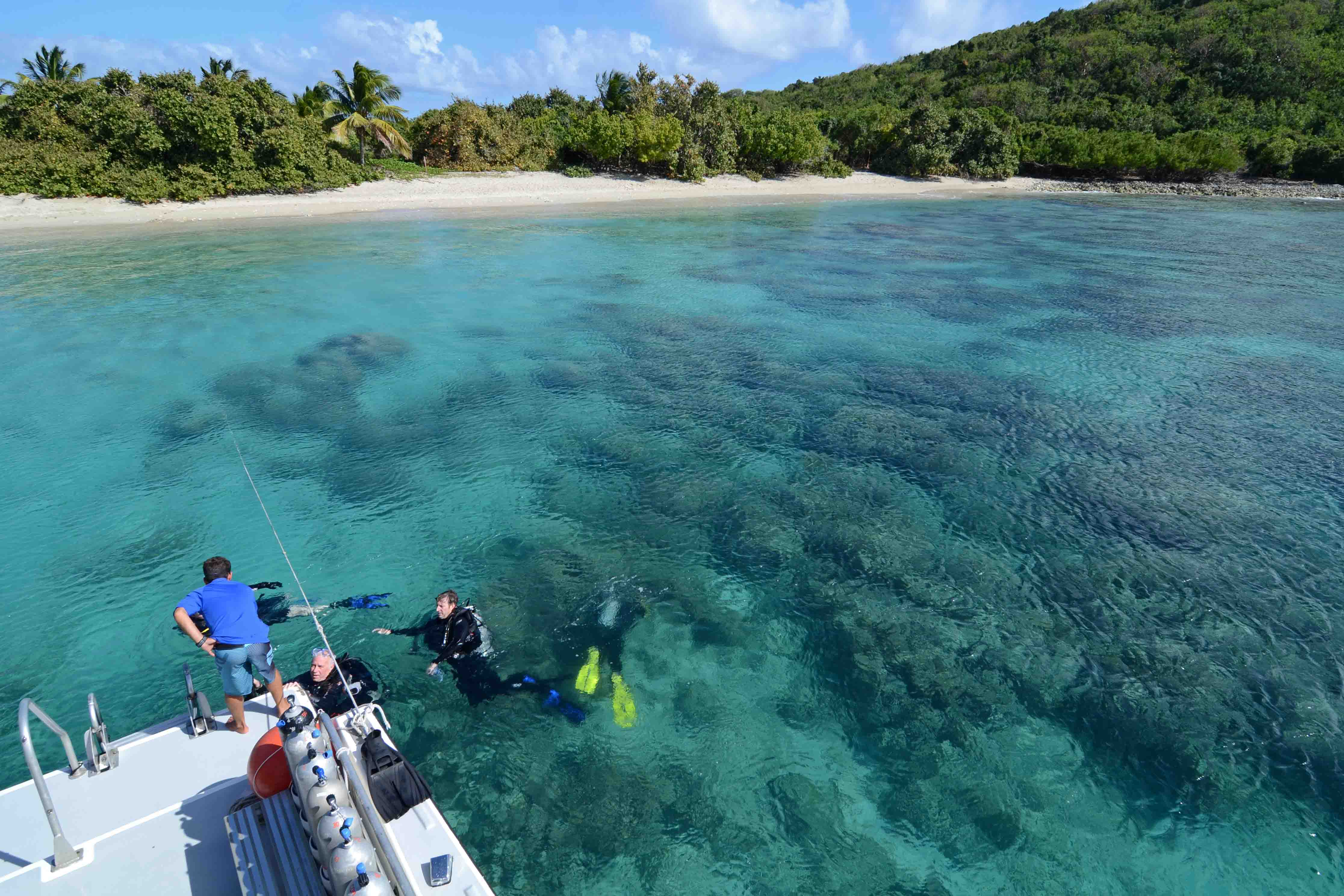 Culebra, with its history of army bombing range has a lot of ruined reefs. The good news is that it has even more undisturbed, pristine and 'unknown' dive sites.